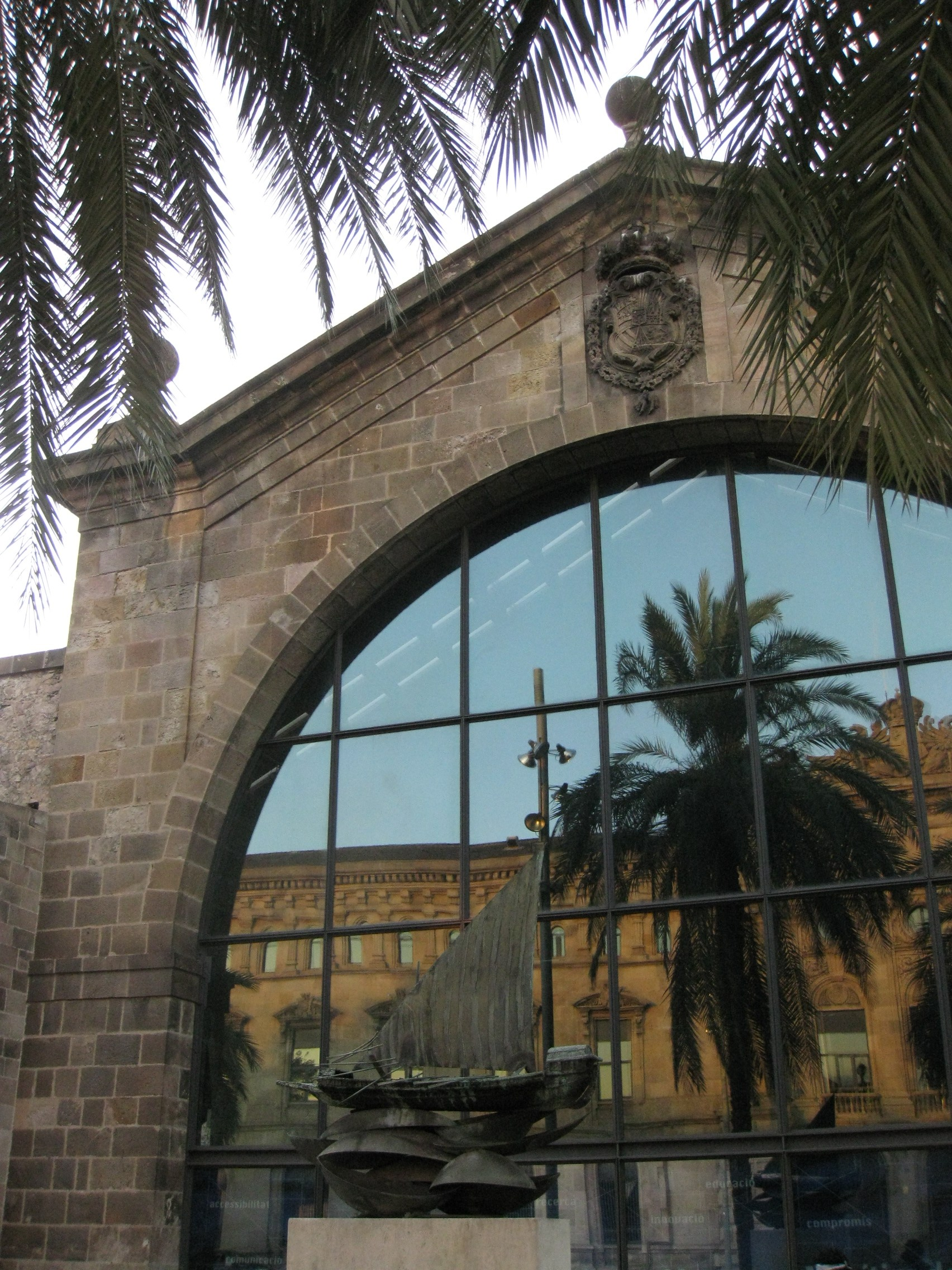 Central arch of the "Drassanes Reials de Barcelona" (Barcelona Royal Shipyard). At the glass we can see a mirror image of the "Edifici de la Duana" (Customs House).